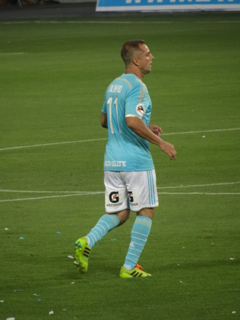 Brazilian footballer Julinho in 2014